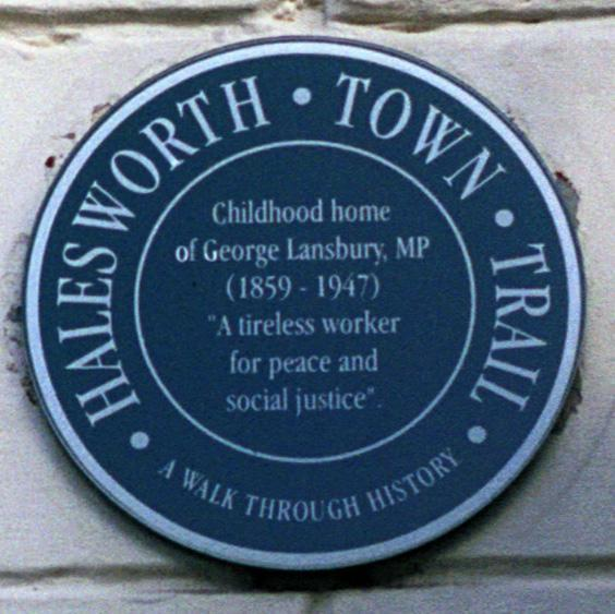 Plaque on home of George Lansbury. Halesworth had only the slightest influence on George Lansbury. He was born on Feb. 21 1859 in a toll keepers cottage on the Bramfield Road (at the Mells crossing) to George Lansbury and Mary Ann Ferris. His father was the timekeeper of a gang of navvies building the East Suffolk Railway. The railway workers moved camp as the line progressed. The toll keeper Robert Clarke took pity on Mrs Lansbury's condition and provided his cottage for her confinement. George was baptised in Halesworth church on March 13 and his parents registered their abode as 'The Thoroughfare'. Their lodgings are marked by a plaque above an organic grocer. Shortly after his birth his family moved onto his father's next contract at Sydenham, near Penge. After many years of this nomadic life, the family settled in East London when George was nine. Unfortunately the plaque gives 1947 as the year of Lansbury's death; he died on 7 May 1940.